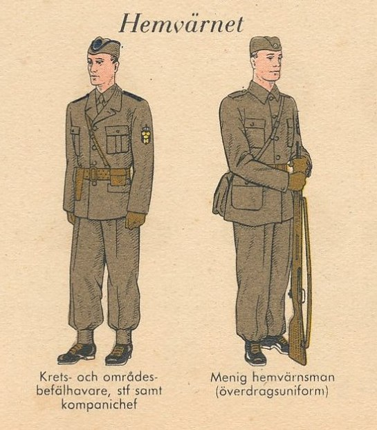 Swedish Home Guard uniforms. Left uniform m/39 for Home Guard officers. Right: Coverall m/41 for Home Guardsmen.